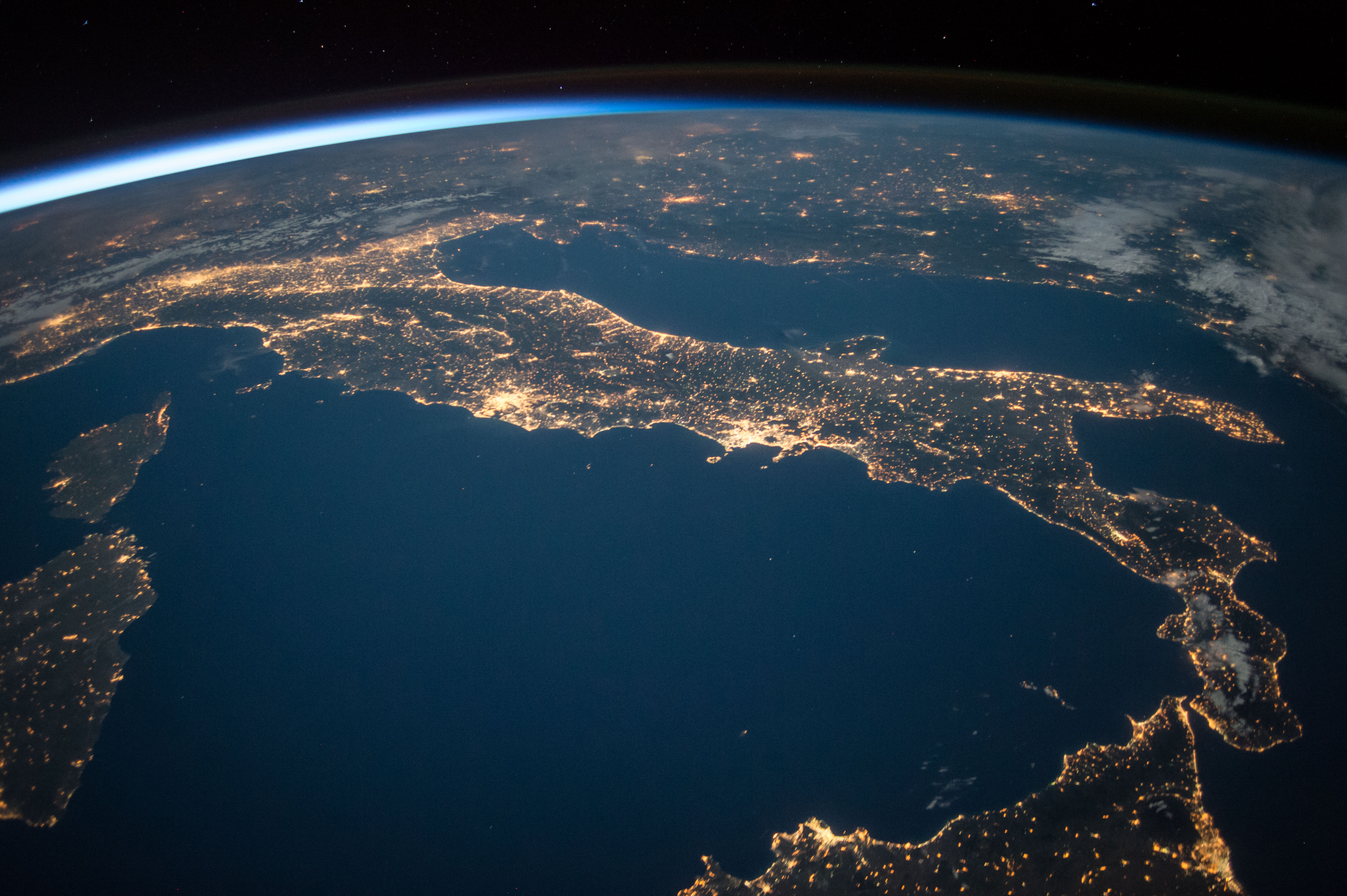 The familiar "boot" shape of the county of Italy stands out in this nighttime image with sparkling city lights reaching from Sicily off the "toe" of the boot, to the approaches to the Alps on the north end of the country.